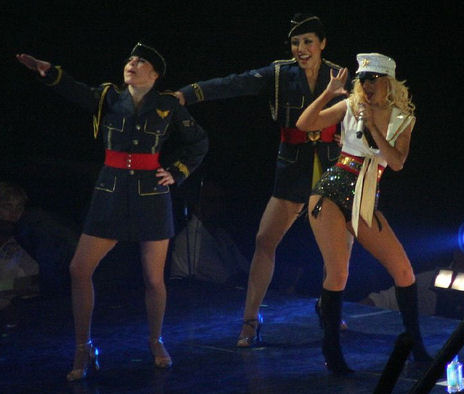 Christina Aguilera on her Back to Basics Tour performs at the Arena at Gwinnett Center in Duluth, Georgia on May 2, 2007.